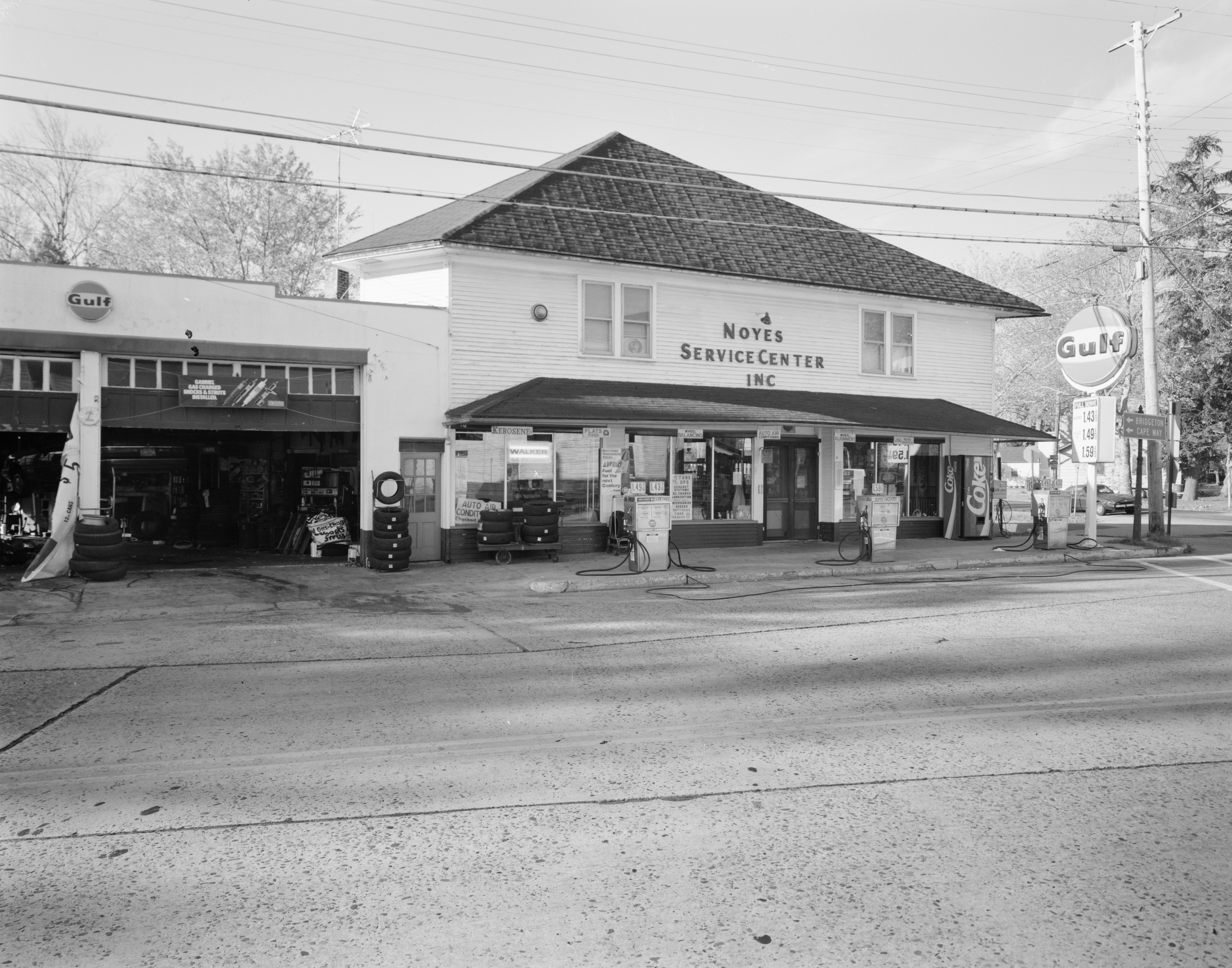 Noyes Service Center, Shiloh, New Jersey HABS photo